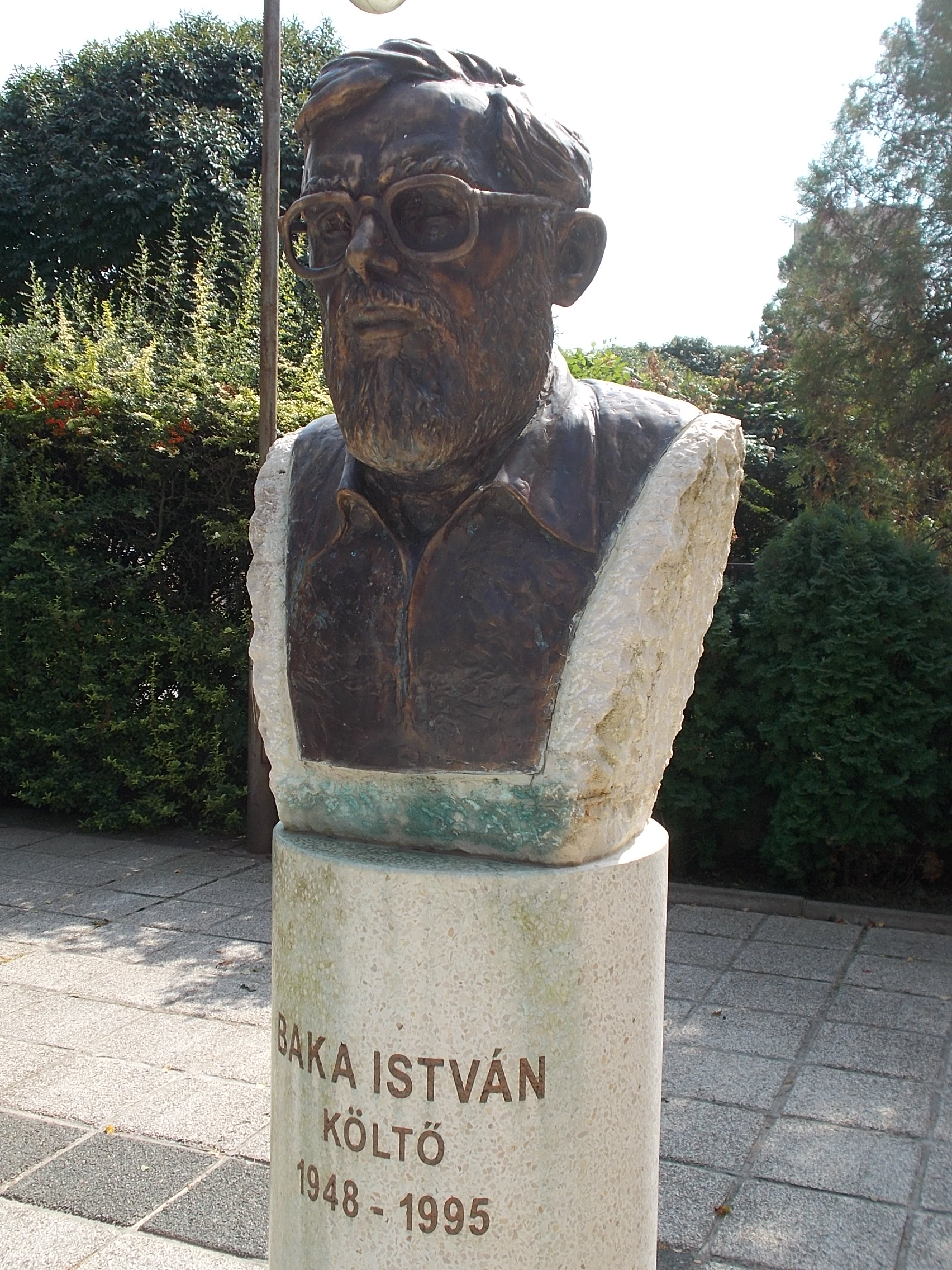 Bust of Istvan Baka by Pal Farkas. - Szekszárd, Tolna County, Hungary.